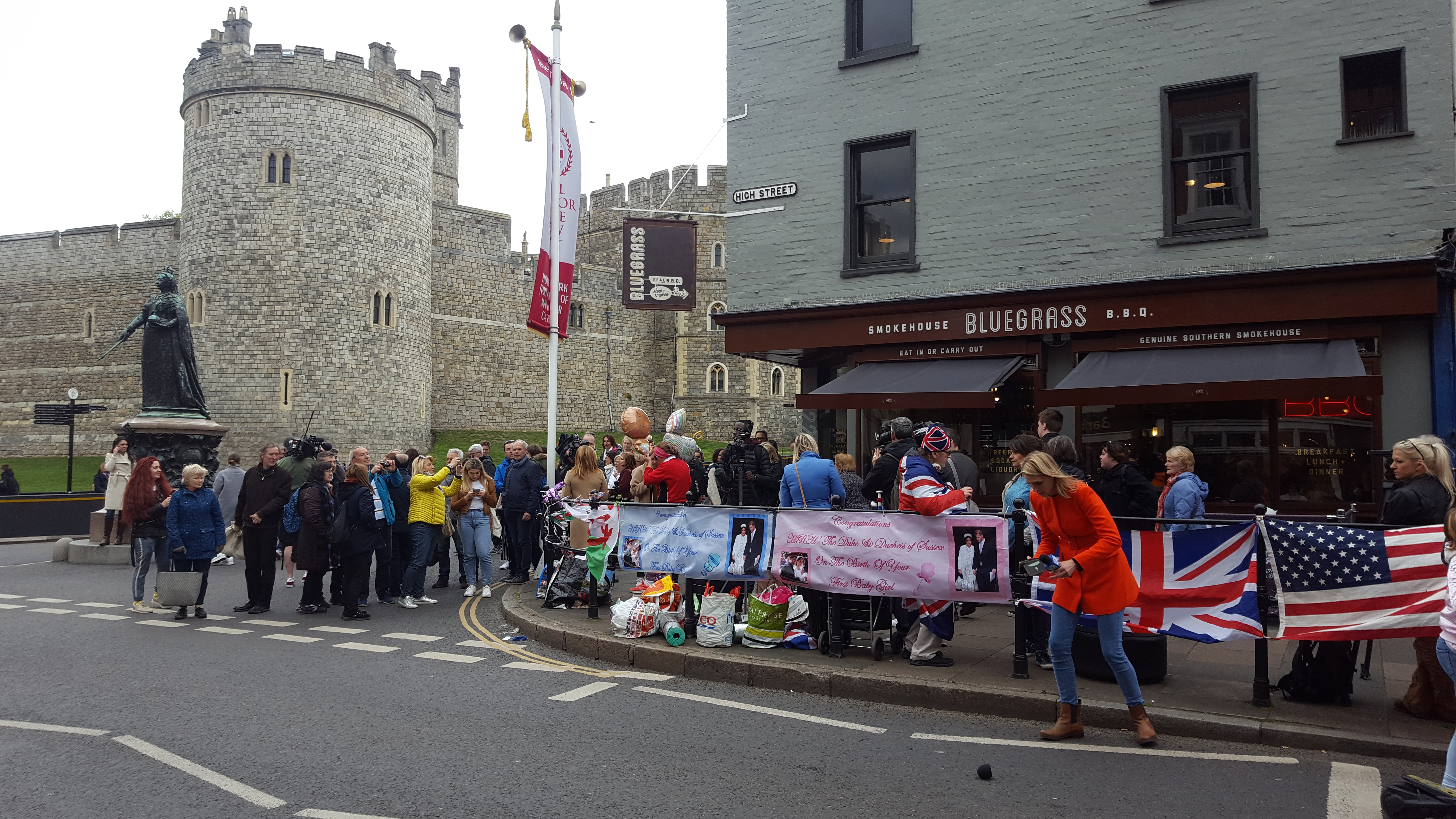 crowds and journalists near Windsor Castle expecting on the occasion of birth of the child of Prince Harry and Meghan